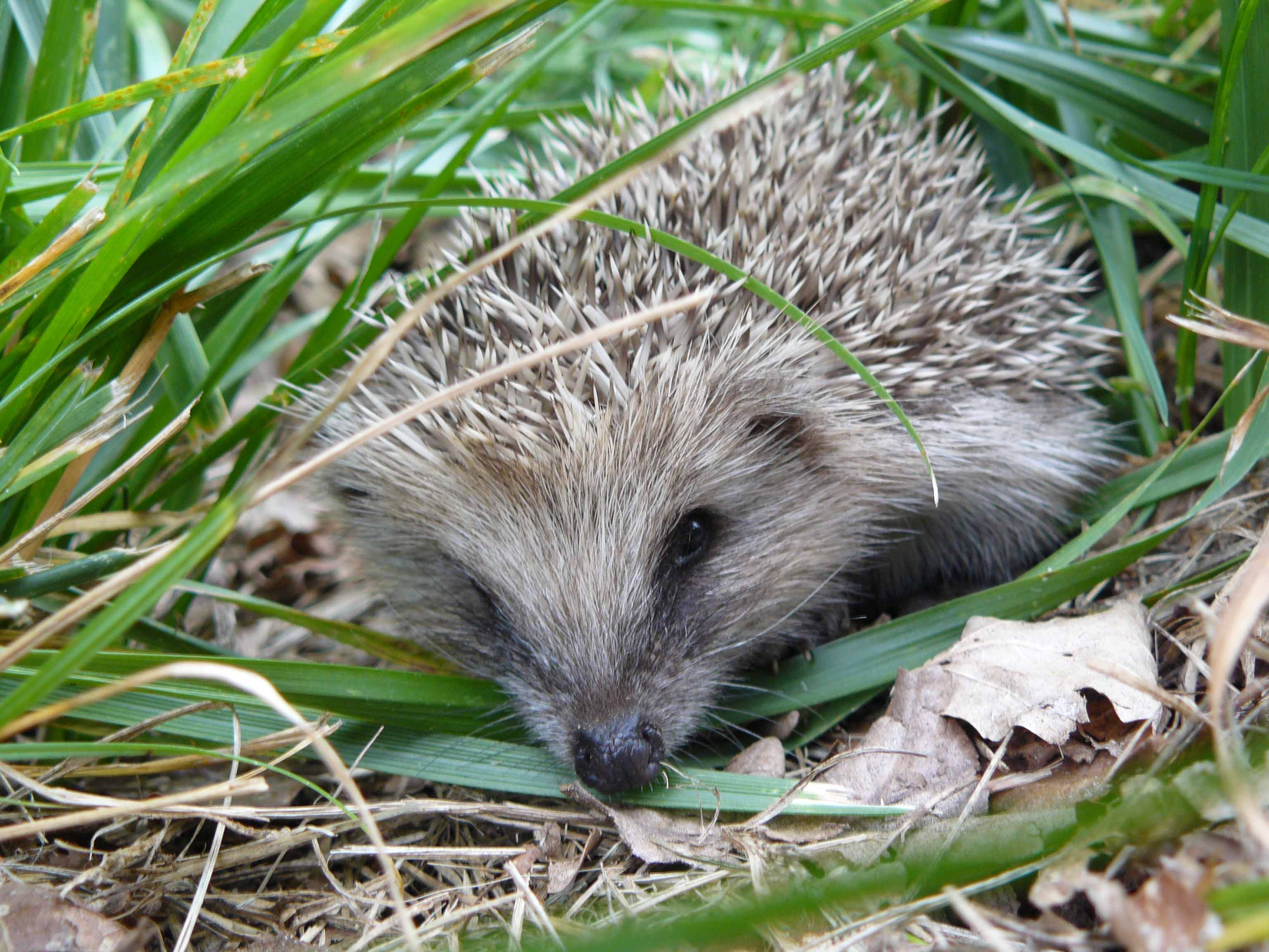 West European Hedgehog (Erinaceus europaeus) in Maceda Castle (Ourense, Galicia, spain)